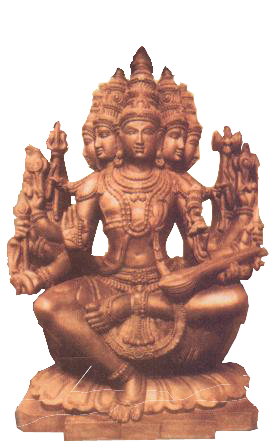 GOD VIRAT VISWAKARMA